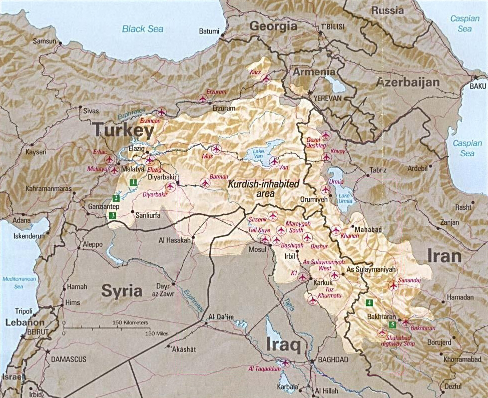 Kurdish-inhabited area, by CIA (1992)